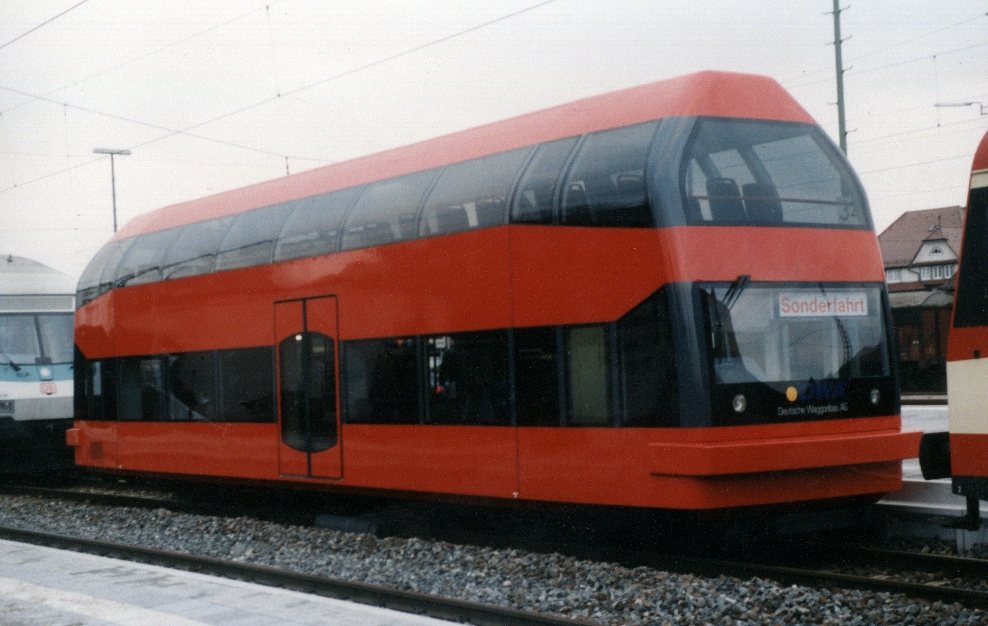 DB 670 Prototyp, doubledeck railbus (Bahnhofsfest Reutlingen).